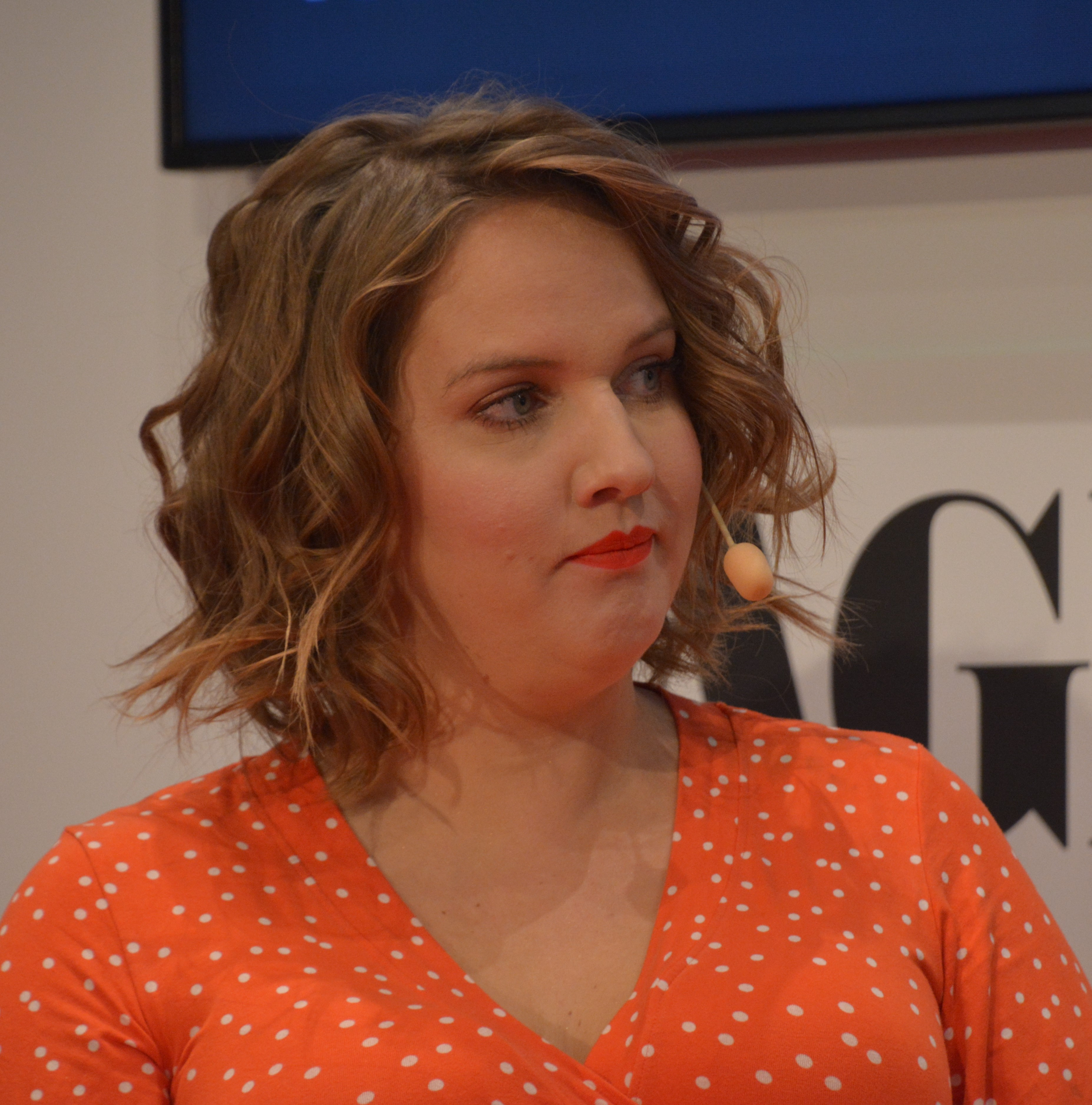 Clara Lidström at the 2018 Göteborg Book Fair.